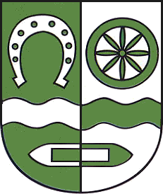 Coat of Arms of Mehmels First upload in de-wp: Kayec (17:38, 5. Jul. 2006)